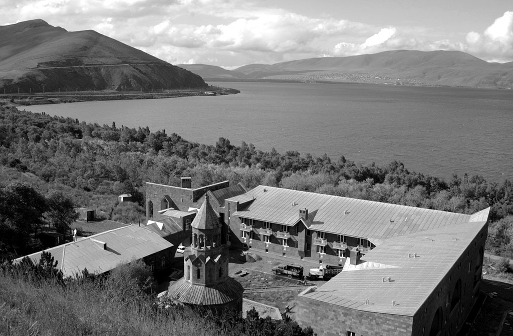 The Vaskenian Seminary on the Sevan Peninsula from the medieval chapel of Sevanavank on the shores of Lake Sevan in Armenia.